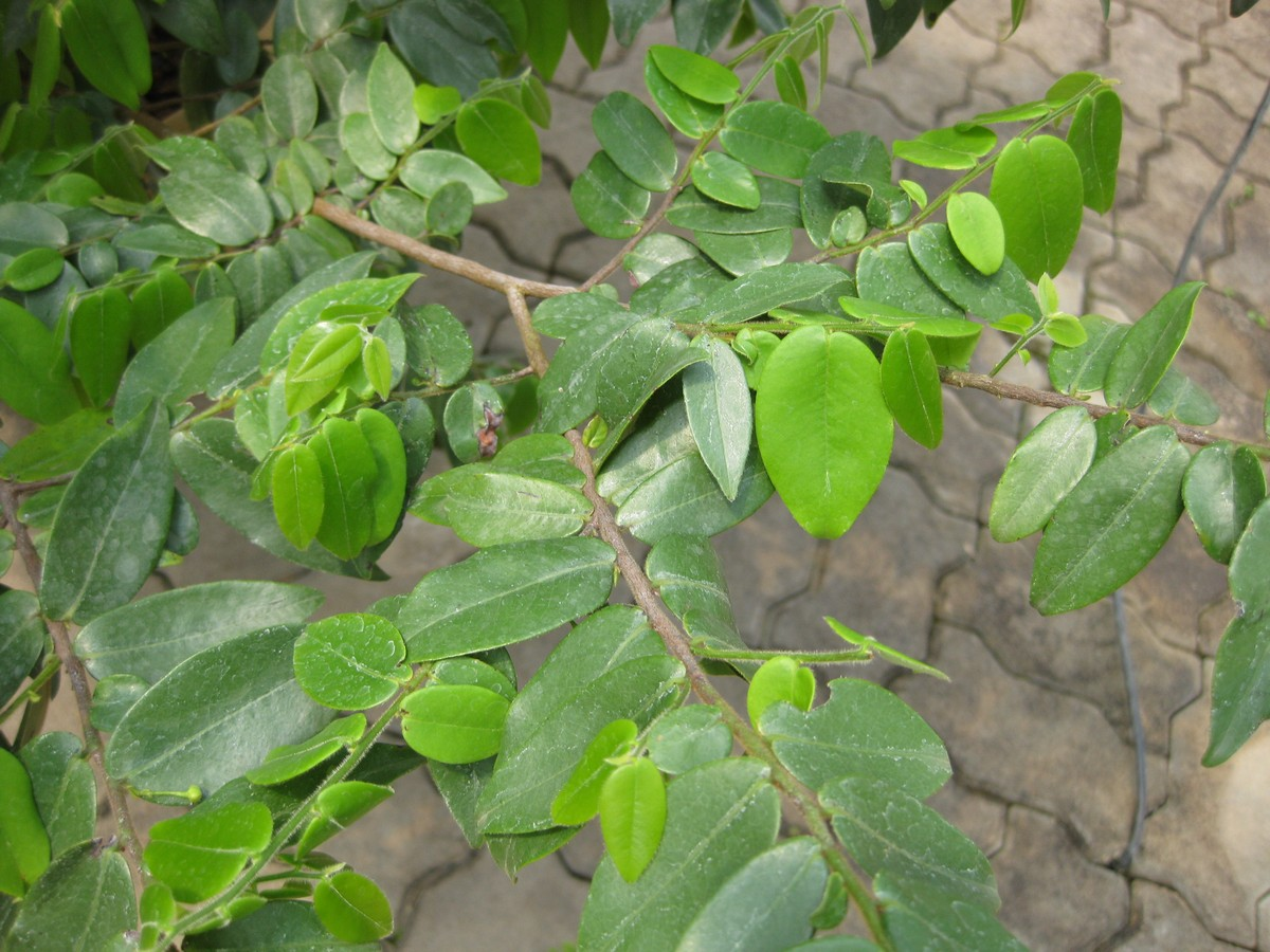 Miliusa mollis Pierre var. mollis. Photographed at the Queen Sirikit Botanic Garden (Chiang Mai Province, Thailand) in March